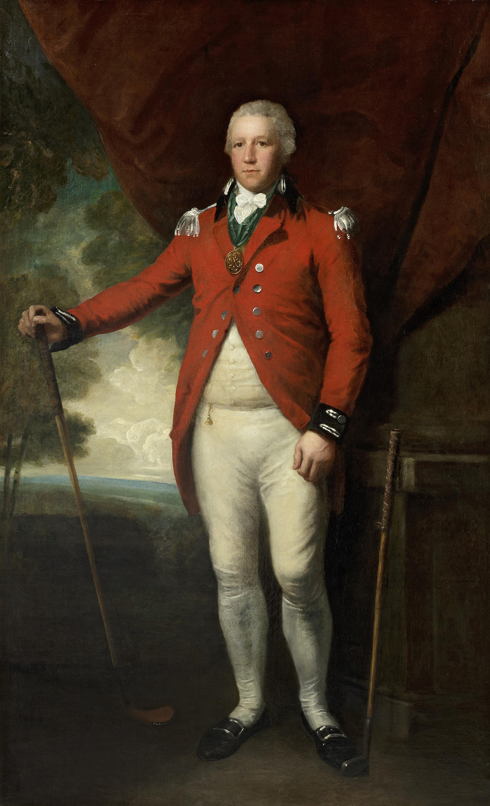 A circa 1790s portrait of Henry Callender standing full-length in a landscape in the attire of Captain General of the Blackheath Golf Club, holding a wooden headed spoon with a metal headed blade putter by his side.